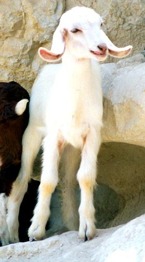 a Domestic goat taken by יואב רוזנברג